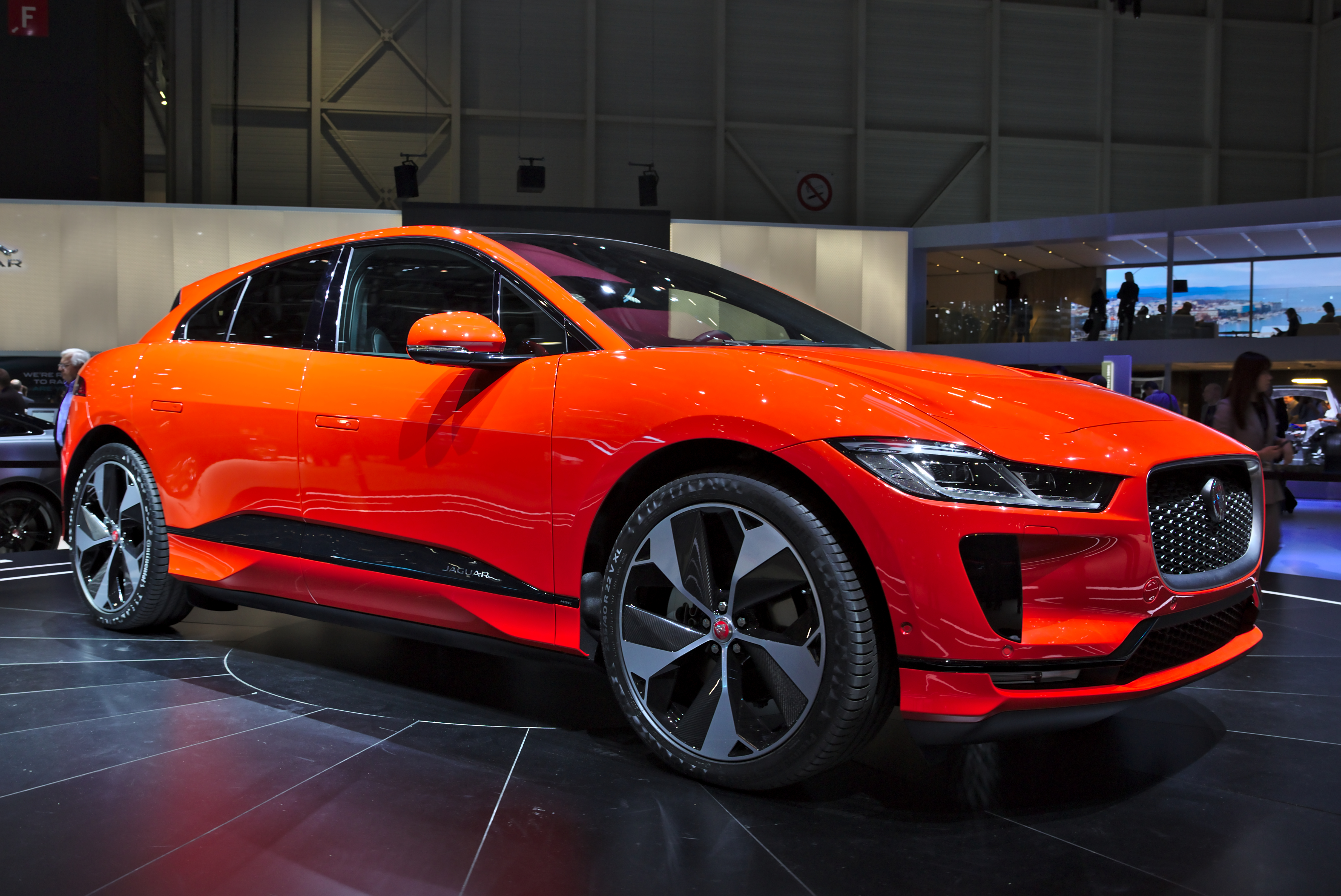 Jaguar I-Pace at Geneva Motorshow 2018